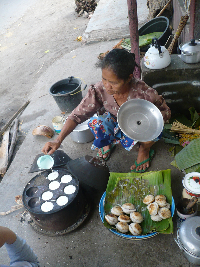 Pouring the batter